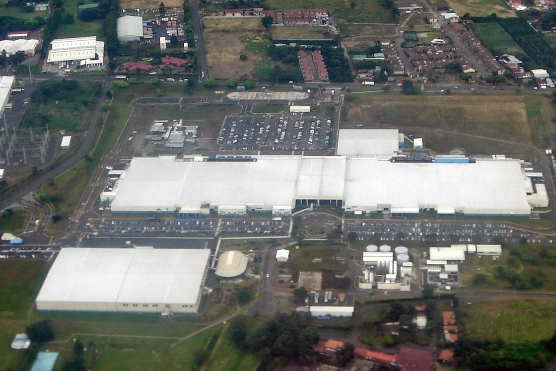 Aerial view of Intel plant in Costa Rica